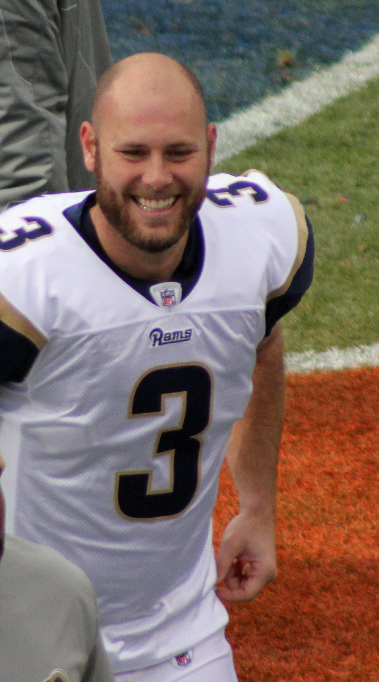 Josh Brown, a player on the Saint Louis Rams American football team.